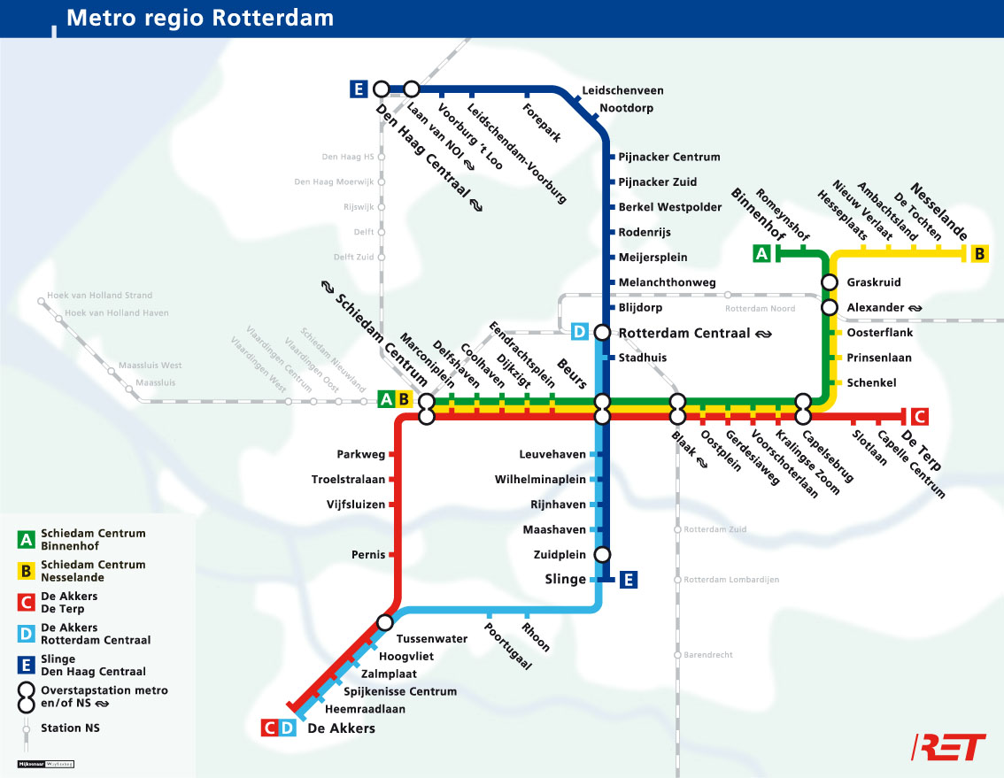 Map of Rotterdam Subway